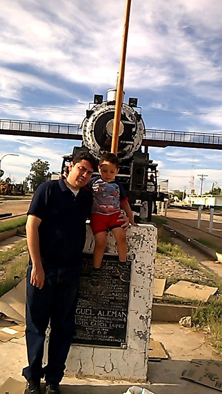 En la estacion BENJAMIN HILL